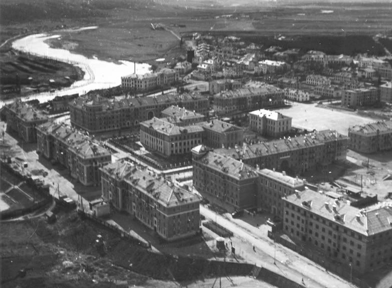 Old Ukhta in 1950s